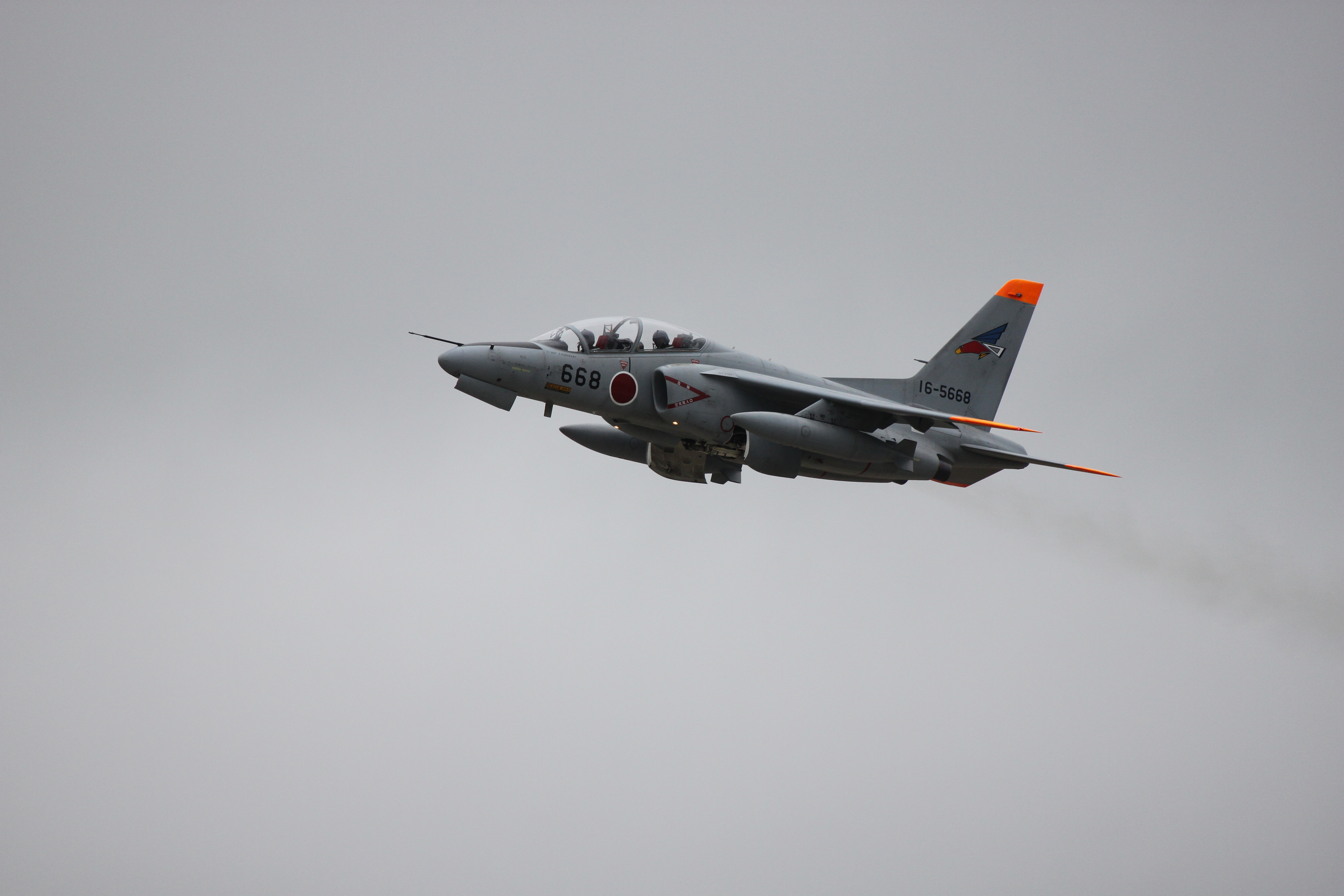 Kawasaki T-4 in flight